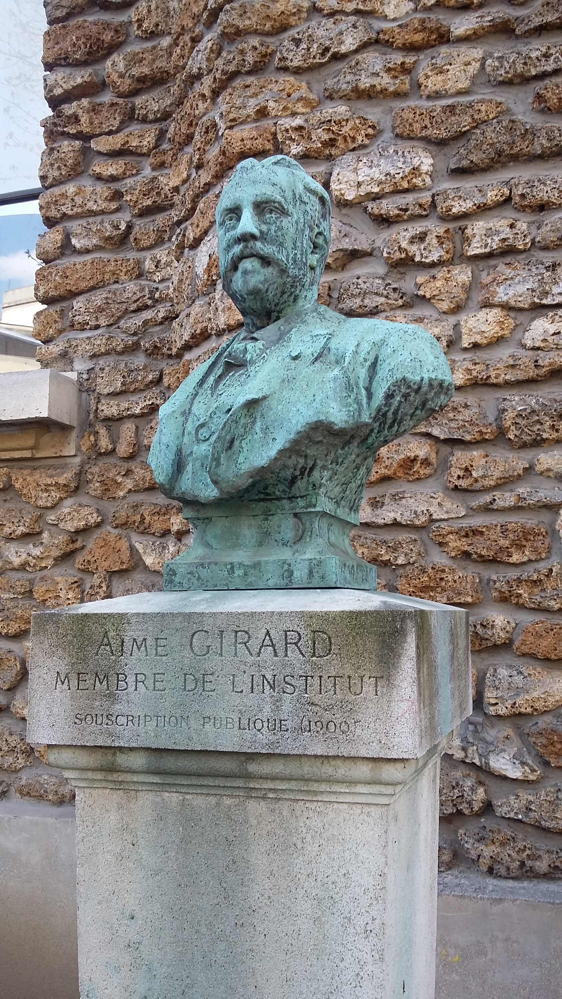 Statue of Aimé Girard (1831-1898), French chemist and agronomist. Photo taken at AgroParisTech.